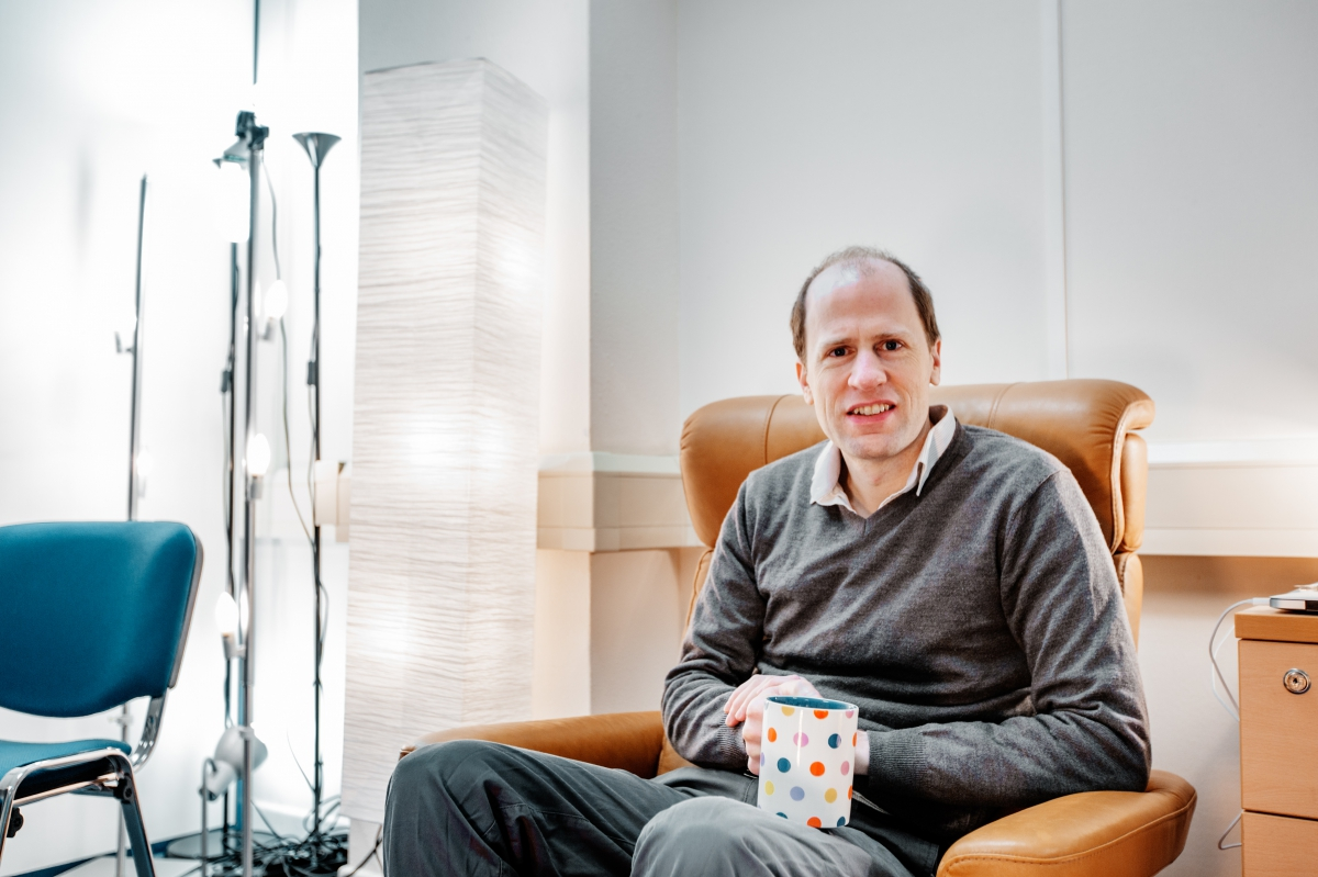 Nick Bostrom drinking coffee in his office